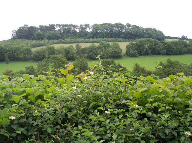 Uphampton Camp, Docklow. Thought to have been an Iron Age hillfort though very little evidence exists. It may have been uncompleted or strip lynchets misinterpreted as ramparts.